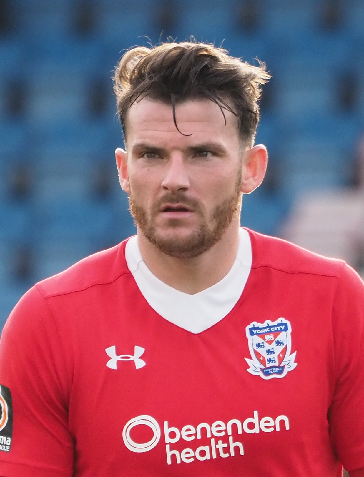 Sean Newton playing for York City against AFC Telford United at the New Bucks Head, Telford on 27 October 2018